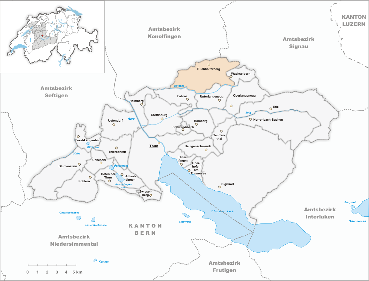 Municipality Buchholterberg